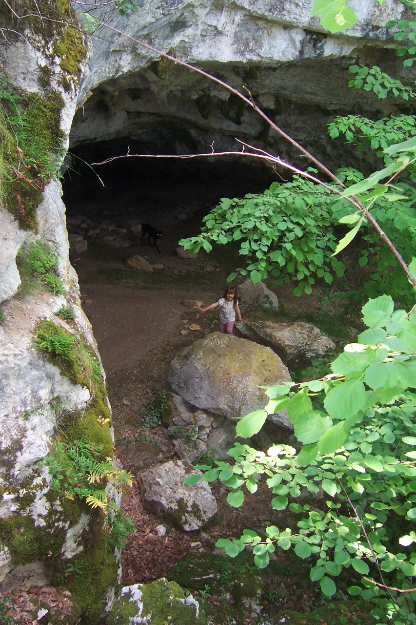 External view of the porch of Linars cave, Alzou valley, Rocamadour, Lot, France.